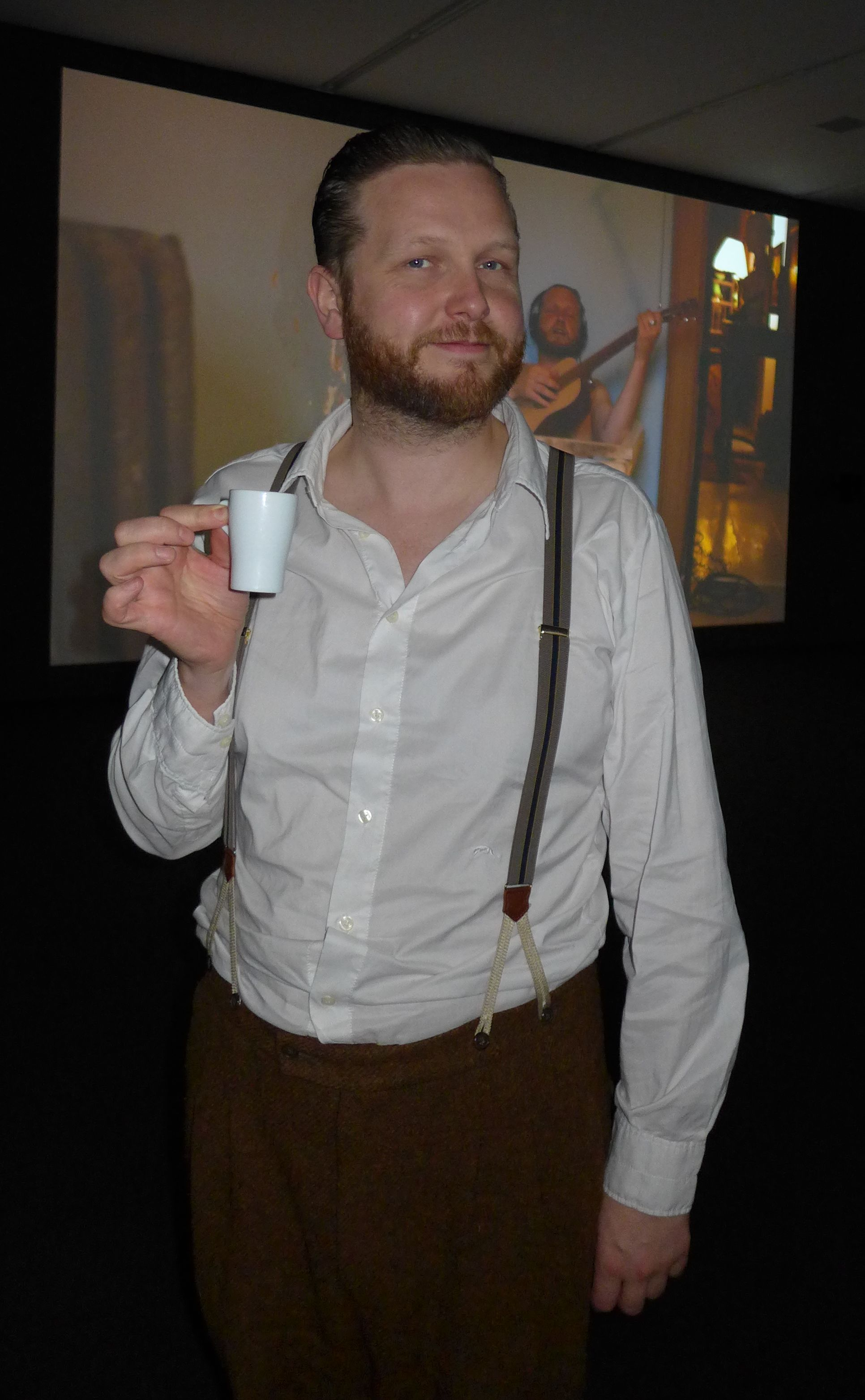 Islandic Artist Ragnar Kjartansson two hours before the opening of his solo show in the Migros Museum in Zürich